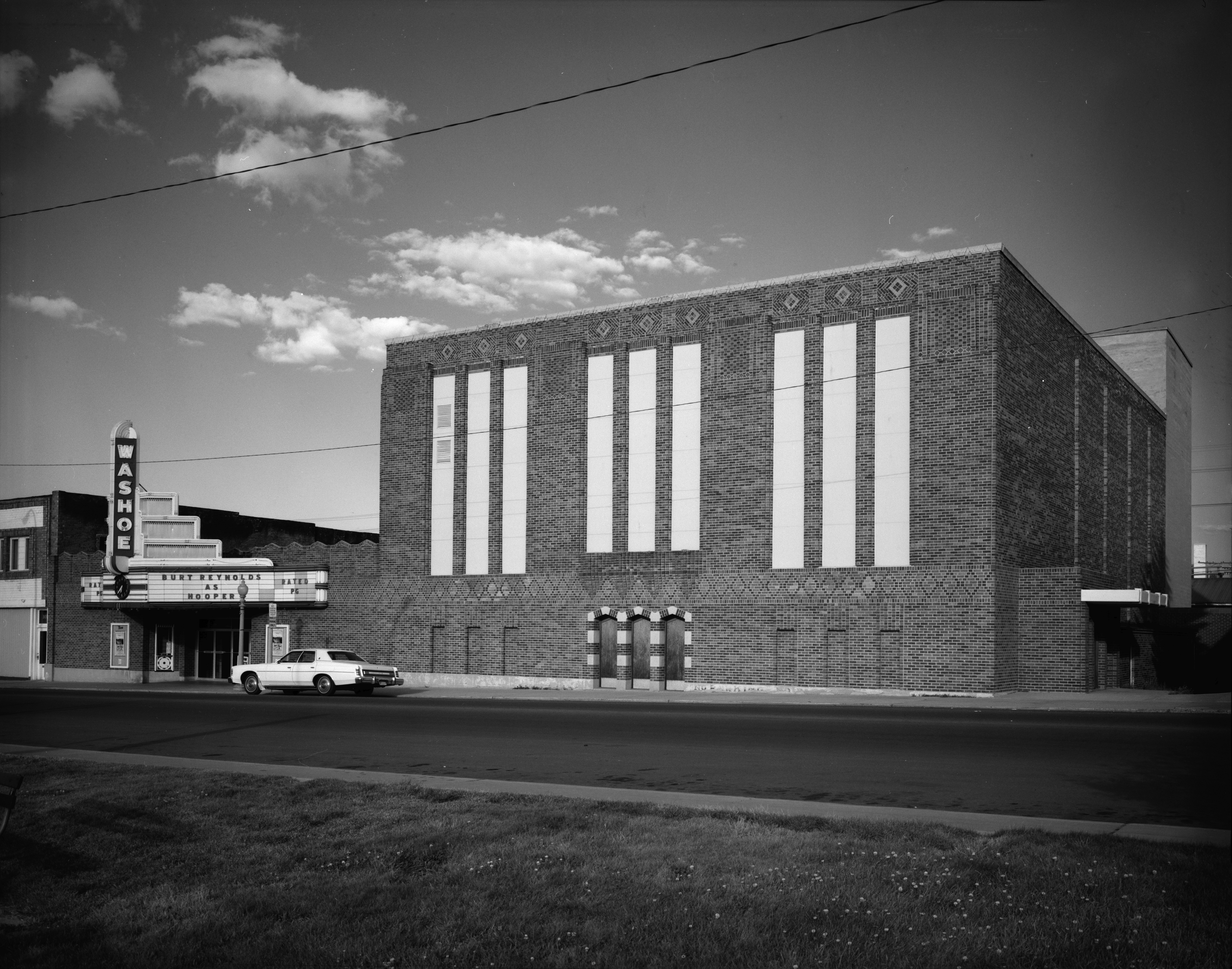 Façade of the Washoe Theater, located at 305 Main Street in Anaconda, Montana, United States. Built in 1931, the theater is listed on the National Register of Historic Places.